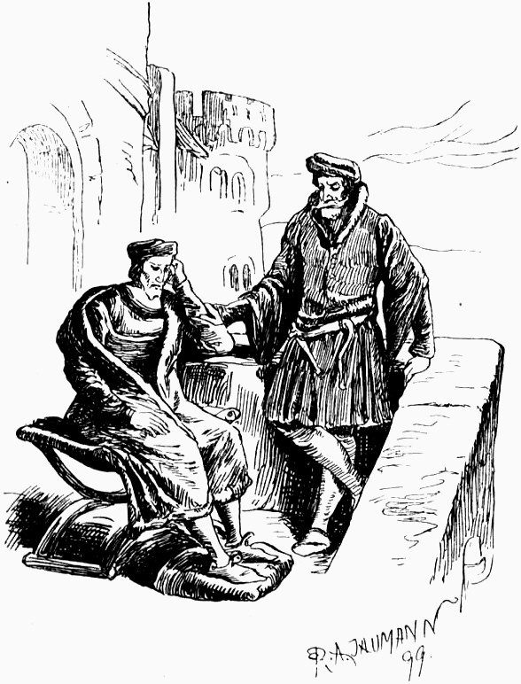 The Dukes Albert III and William III of Bavaria-Munich as drawn by R. A. Jaumann for Arthur Achleitner’s Bayern, wie es war und ist.